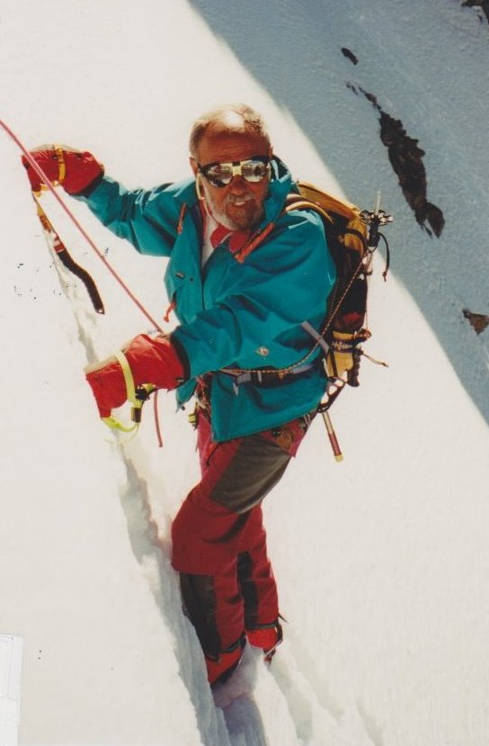 A picture taken on the Peutrey Ridge of the Mont Blanc summit